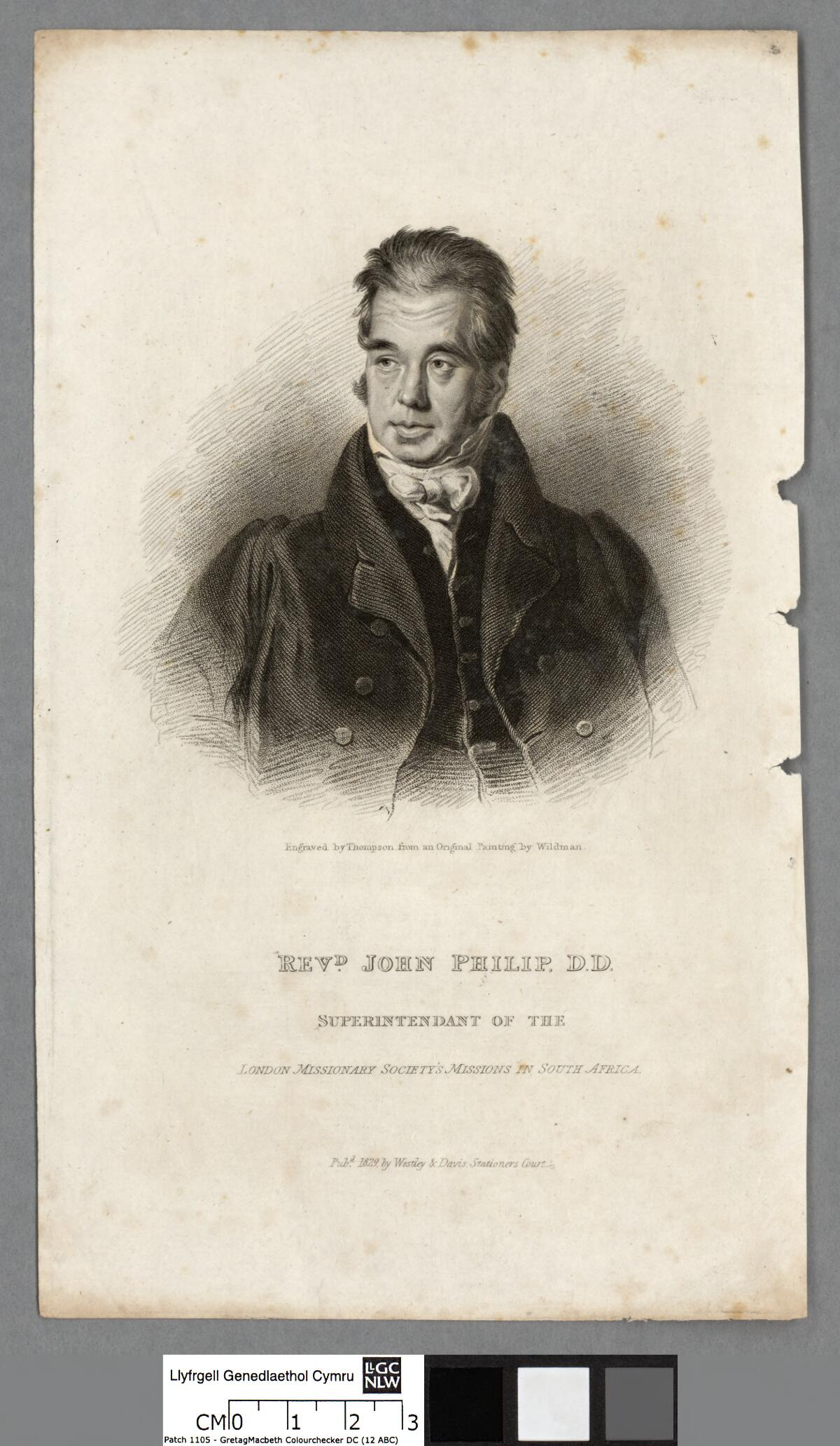 A portrait from the Welsh Portrait Collection at the National Library of Wales. Depicted person: John Philip – British missionary